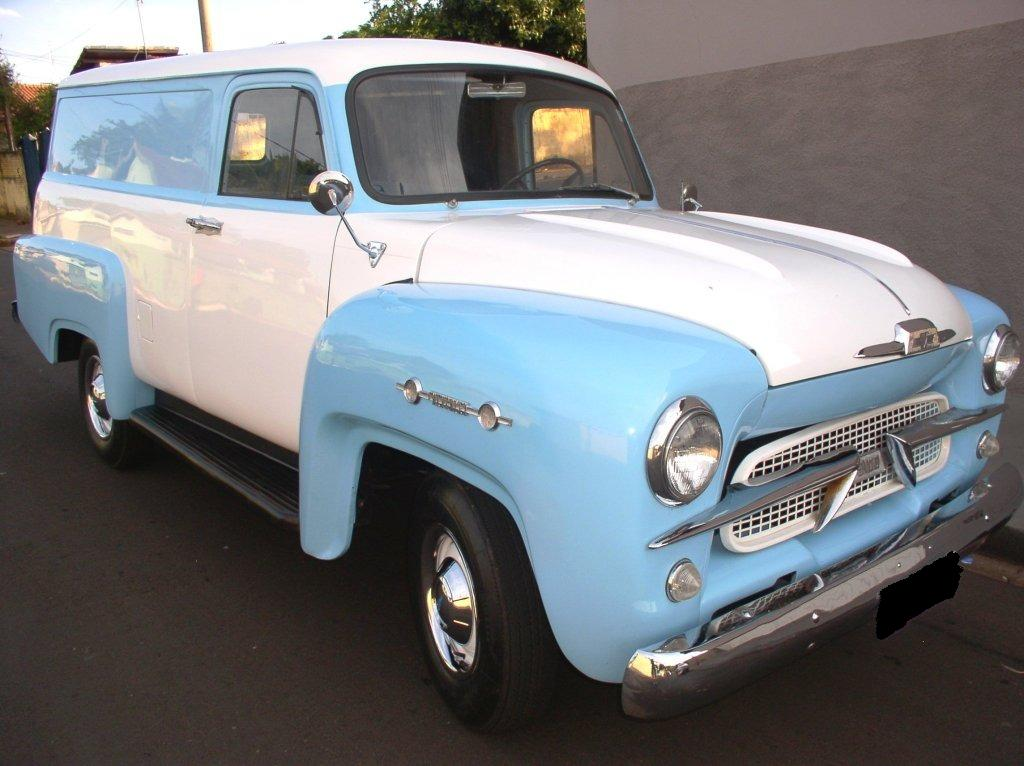 Chevrolet Corisco 1959